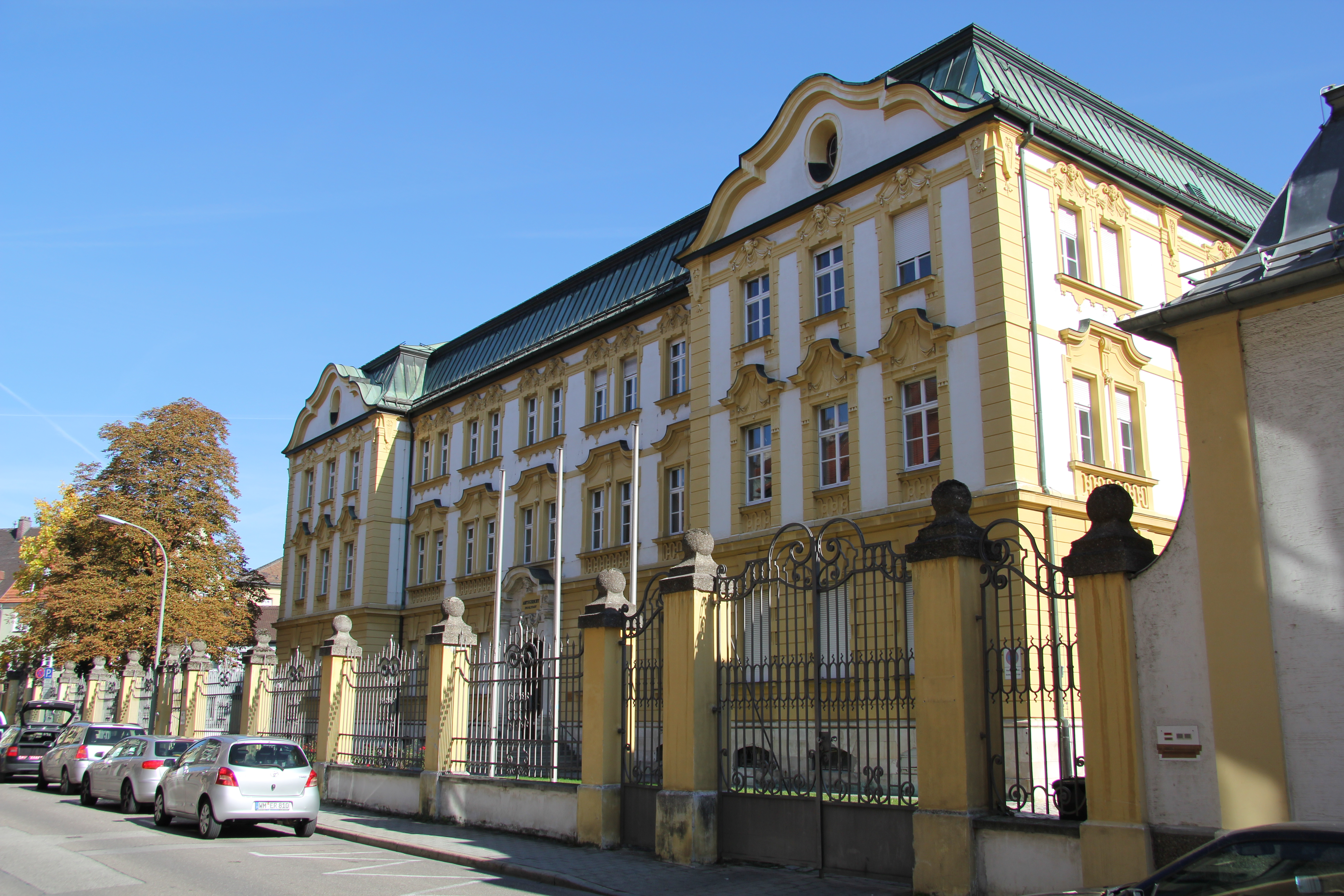 Ingolstadt, Amtsgericht (district court), Neubaustraße